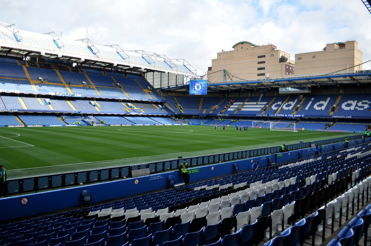 First pic from inside Stamford Bridge